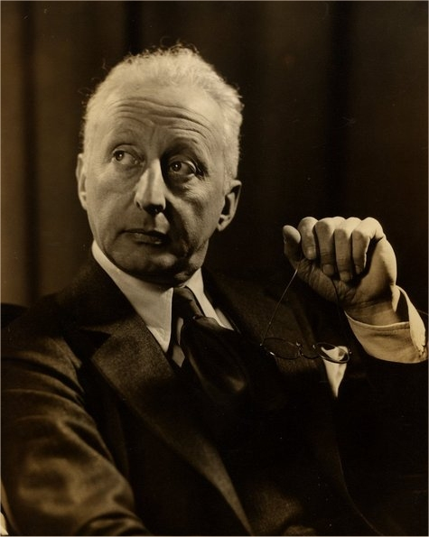 Photograph of Jerome Kern